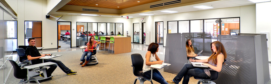 One of the campus's pods (innovating learning centers).